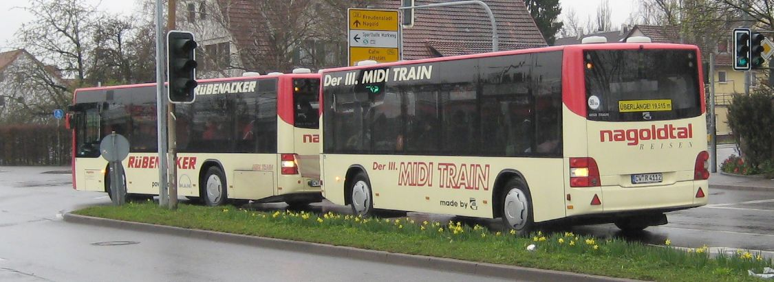 MAN NM 2x3.3 Lion's City M bus (type A35, length: 9,695 m; reg. CW-....) with Göppel G10 Mk3 bus trailer (reg. CW-R 4112), MIDI TRAIN of the company Göppel, seen in Herrenberg, Baden-Württemberg, Germany. Built 2005, 2006 or 2007. Rübenacker from Nagold operator.